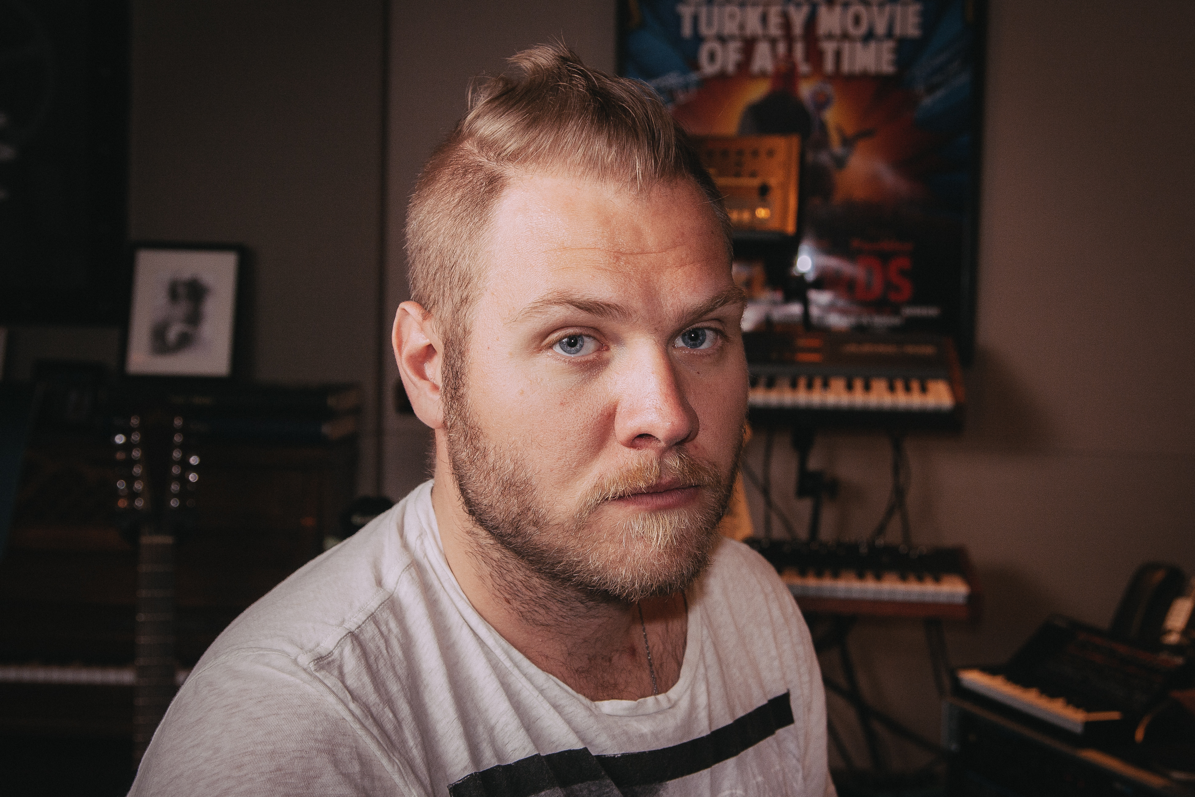 Dominic Lewis by Dan Pinder; DP 20160527-135014Z Canon EOS DIGITAL REBEL XTi 0118; Ticket #2017111610003423